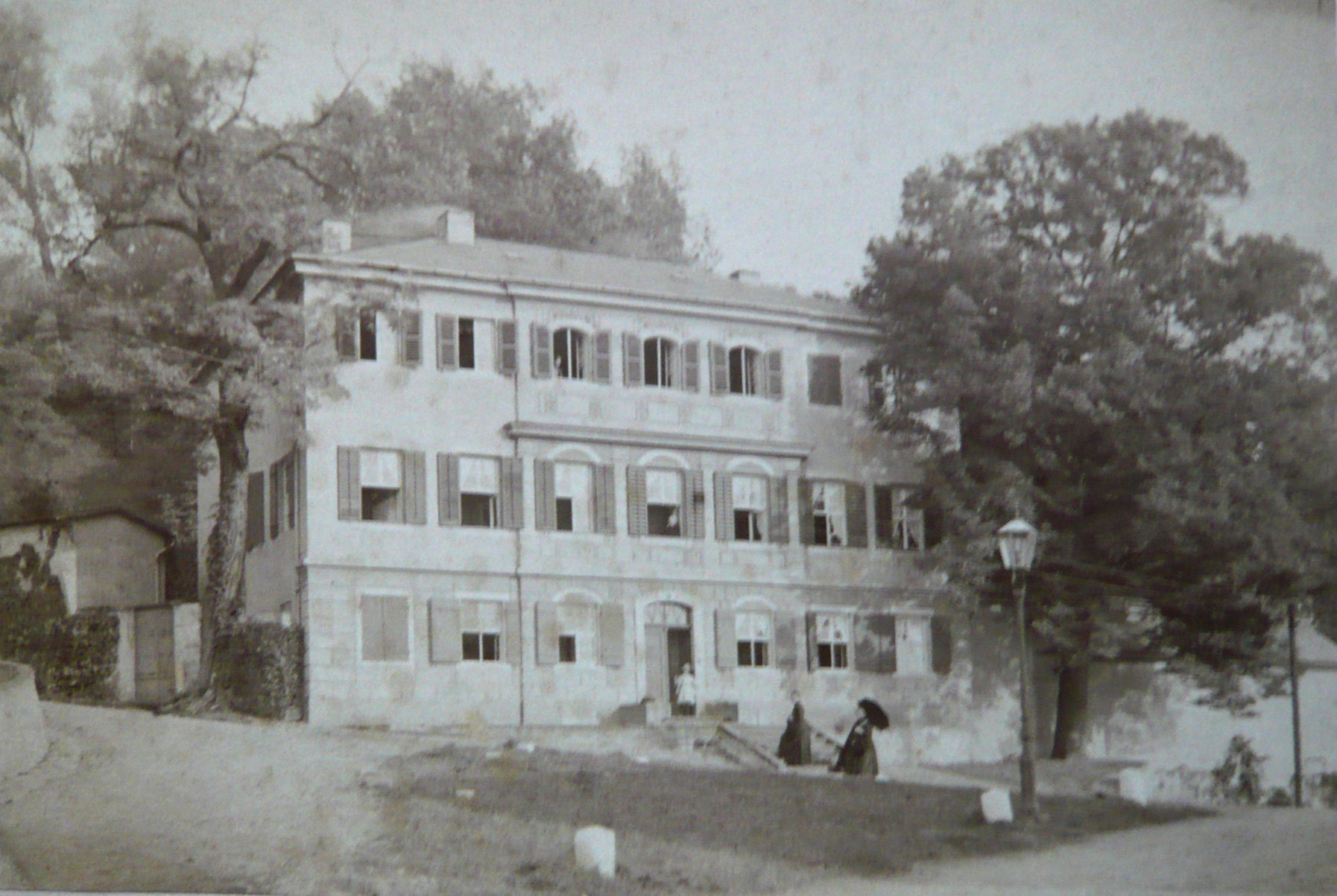 country residence of August Grahl in Loschwitz, Pillnitzer Landstraße 63, picture from 1868